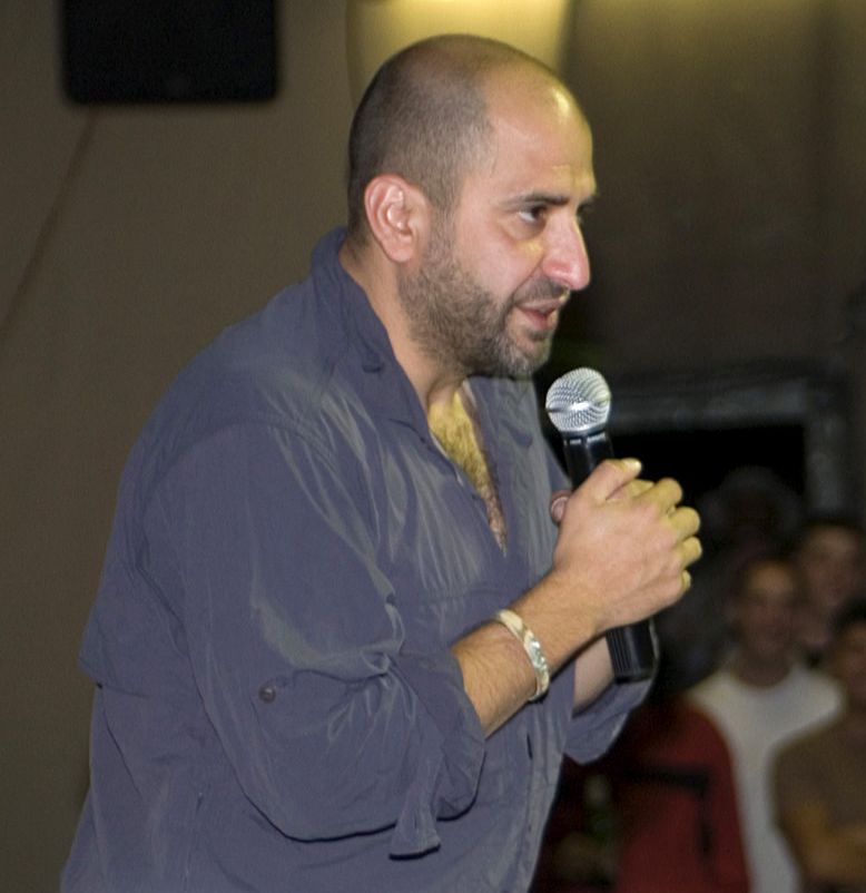 Comedian Dave Attell entertains troops at Manas Air Base, Kyrgyzstan